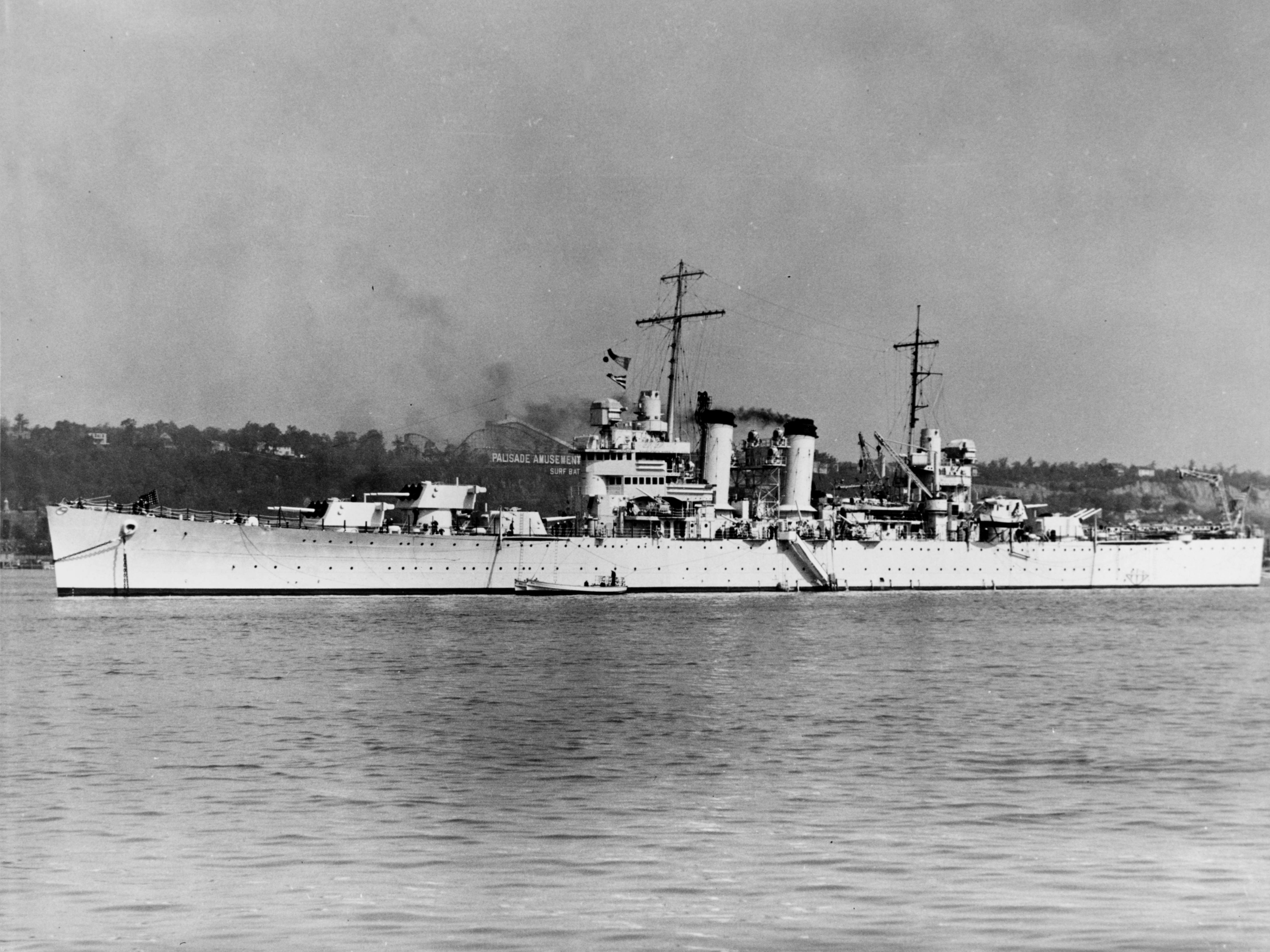 The U.S. Navy light cruiser USS Brooklyn (CL-40) in the Hudson River, off New York City, in 1939. The Palisade Amusement Park is in the center background.